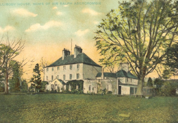 Tullibody House c.1900